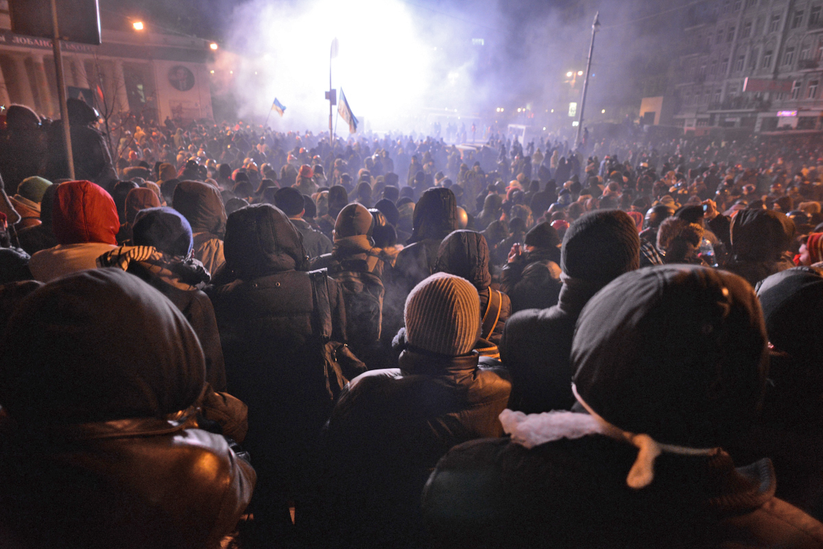 Dynamivska str. Euromaidan Protests. Events of Jan 19, 2014-2